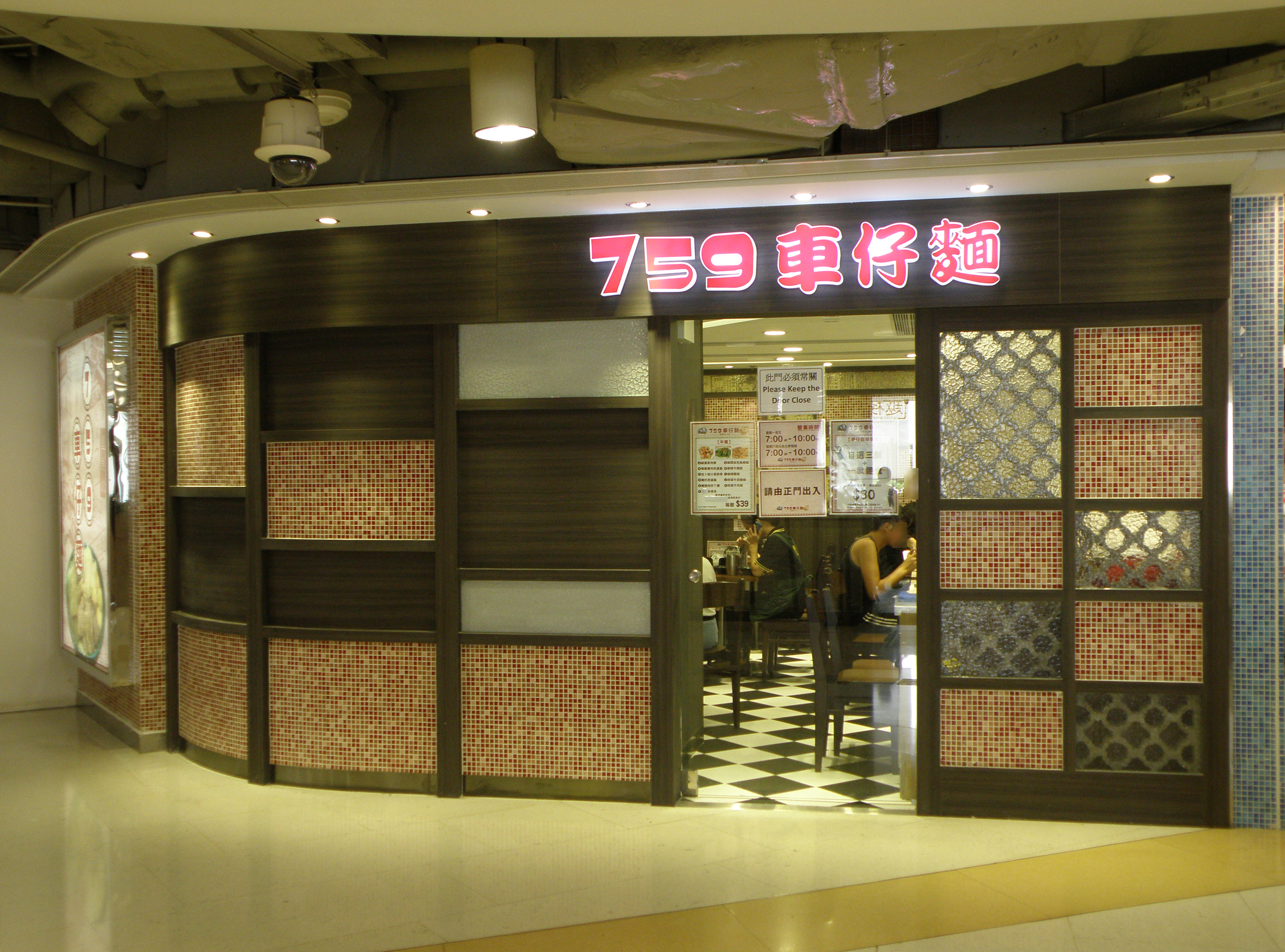 759 Cart Noodle in Tuen Mun, Hong Kong.